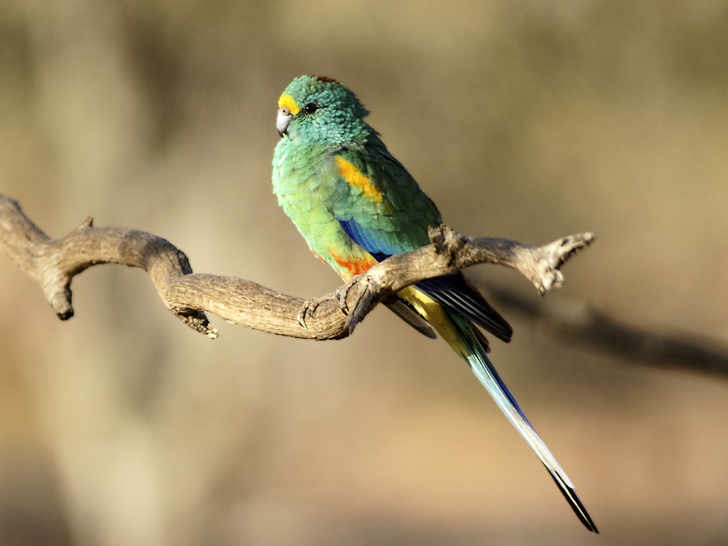 A male Mulga Parrot at Gluepot Reserve, South Australia, Australia. Male. This species has benefited from the elevated watering points that Birds Australia has installed at Gluepot, each with a bird hide next to it. Large flocks of Mulga Parrots arrive at dawn to drink, 70 in a flock seen by the photographer one morning.